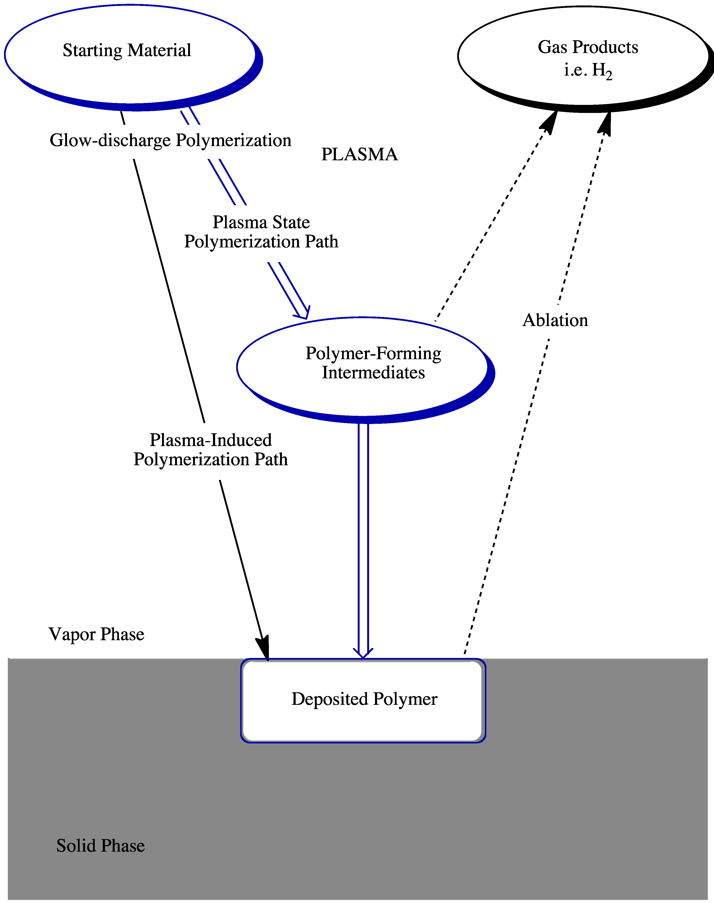 Image of competitive ablation polymerization for glow discharge polymerization